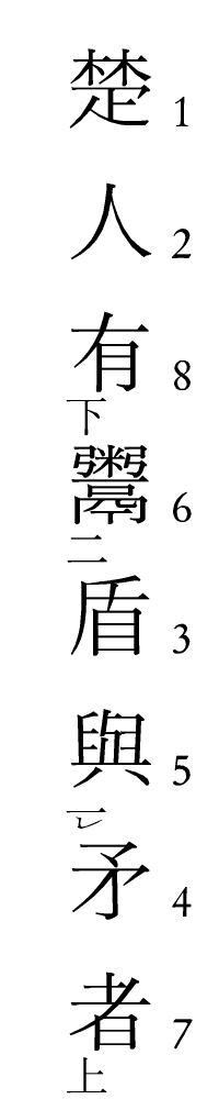 Example of Kaeriten